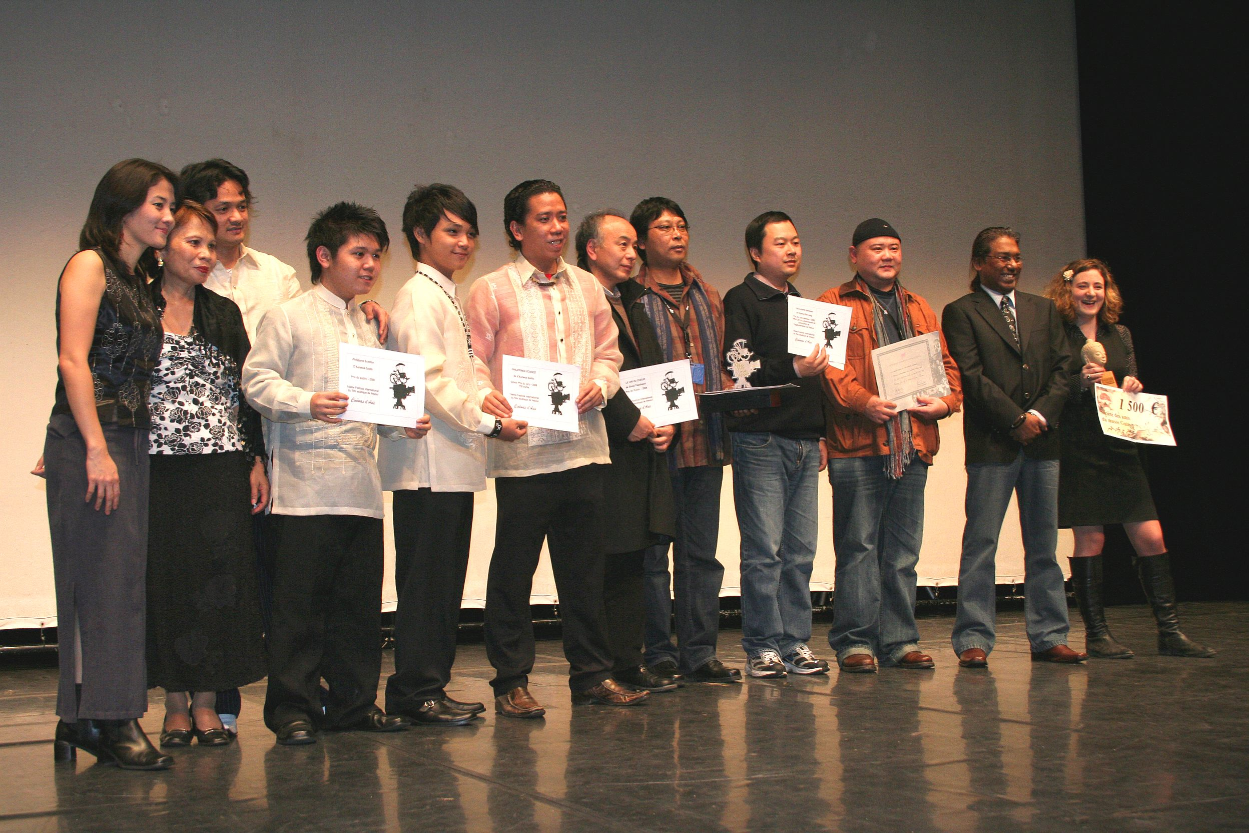 Auraeus Solito (6th from the left) and some actors of Philippine Science